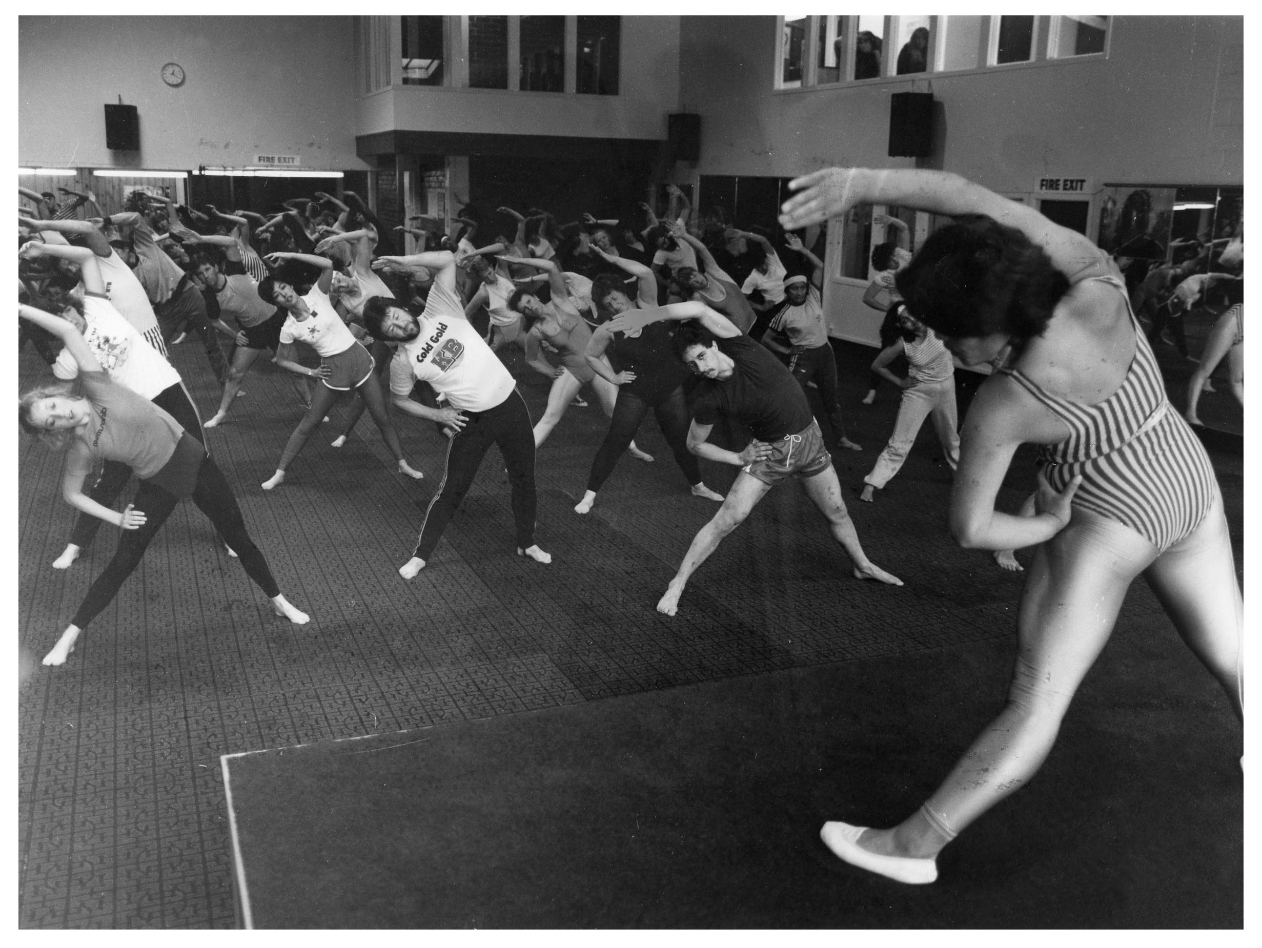 This photograph was taken by S. Raynes in Wellington, September 1983. It now forms part of Archives New Zealand's National Publicity Studios collection. The National Publicity Studios was established in 1945, but its beginnings can be traced back to the establishment in 1924 of a Publicity Office - part of the Department of Internal Affairs. The emphasis of this Publicity Office was on films, photographs and booklets. The purpose of the National Publicity Studios was to provide advice to government departments and state agencies on the provision of photographic, art, and display services and in particular to assist in the production of publicity material aimed at conveying a favourable image of New Zealand. Archives reference: AAQT 6539 W3537 12/ R15858 (R25075240) To enquire about this record, please Material from Archives New Zealand